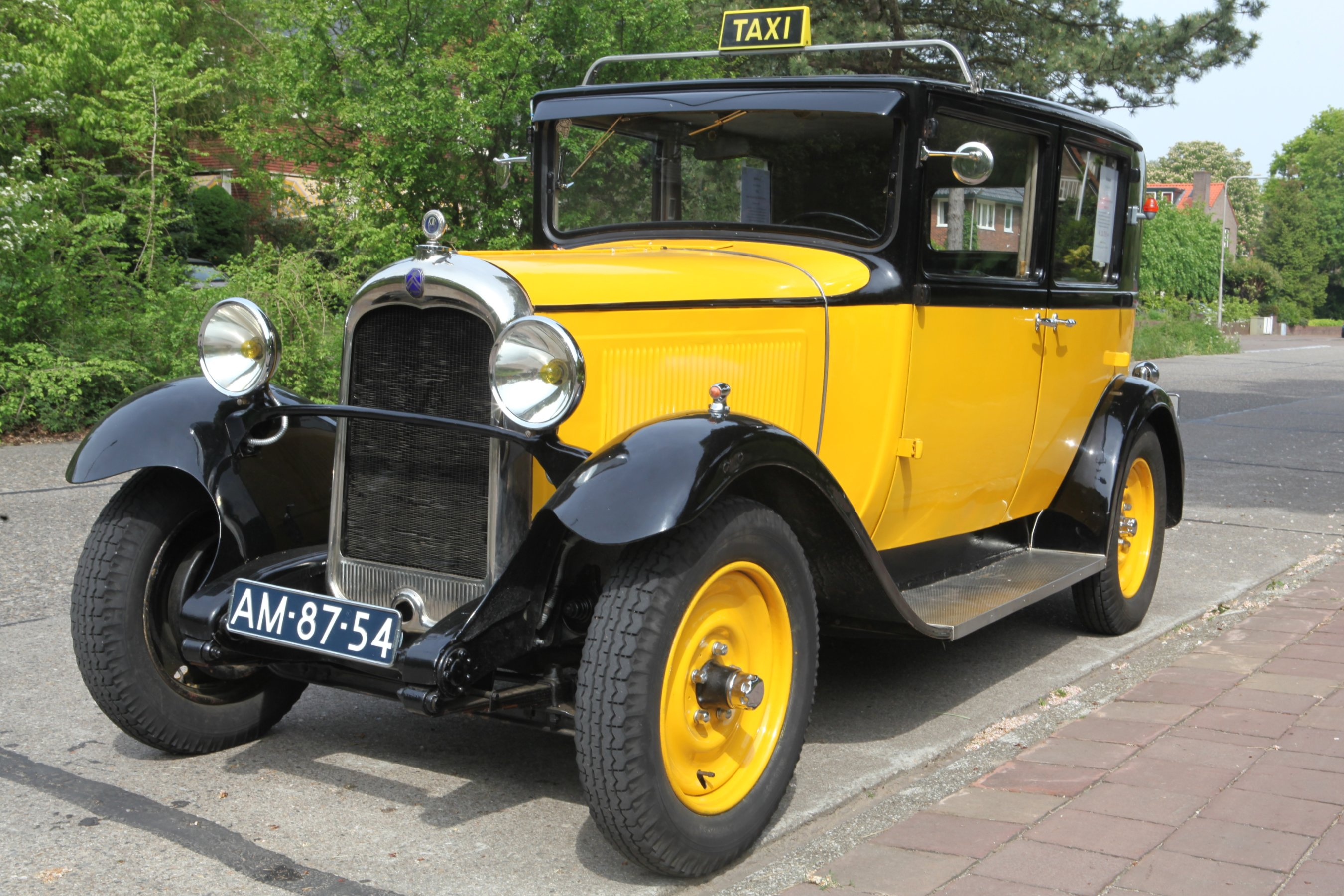 1929 Citroën C 4